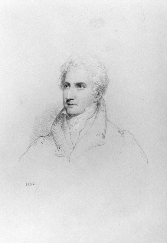 Portrait of Sir John Carr (1772–1832), English travel writer.